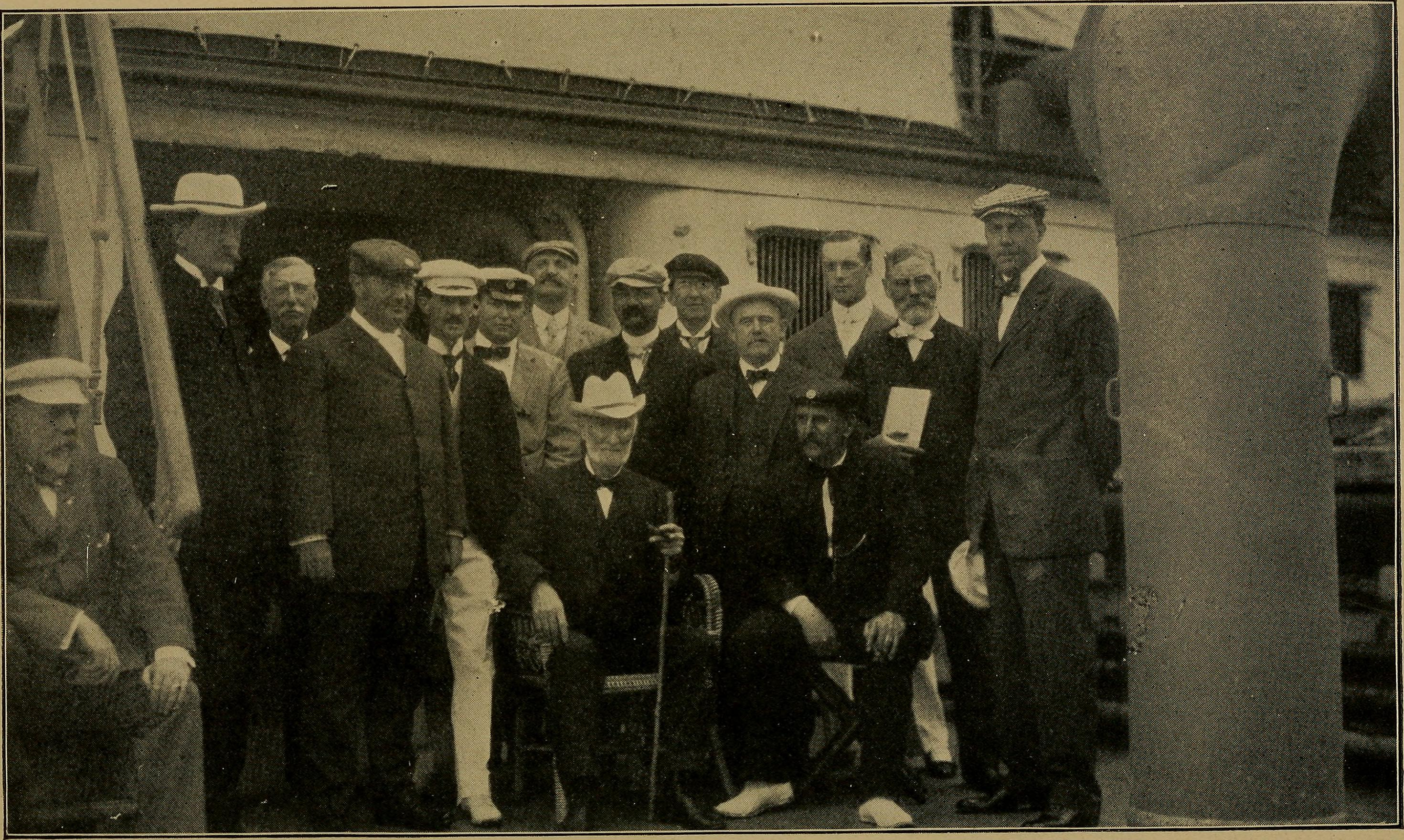 Title: With Speaker Cannon through the tropics : a descriptive story of a voyage to the West Indies, Venezuela and Panama: containing views of the Speaker upon our colonial possessions Year: 1907 (1900s) Authors: Moore, J. Hampton (Joseph Hampton), 1864-1950 Subjects: Cannon, Joseph Gurney, 1836-1926 Publisher: Philadelphia, The Book print Text Appearing Before Image: ^an,-ay-yan,-ay-yan, oo! 372 Text Appearing After Image: HOMEWARD BOUND. 375 HI. Of gallant stature is the man from Hudson, nigh to Penn,Whos seen upon the deck a-promenading now and then,He speaks in dulcet tones about the commerce in the docks,And shows how Congressmen appear in good old knickerbocks. Chorus.Oh, Mister Olcott; Oh, Mister Olcott, The rarest man the country ever knew,Is Mister Olcott; is Mister Olcott, Is Mister Olcott, Olcott, Olcott, oo! IV.And there is one named Tawney, from the great Northwest he comes,The music of his voice would far excel ten thousand drums.Ten hundred millions at his back to make the coimtry go.Throughout the land, he beats the band, for good old Uncle Joe. Chorus.Oh, Mister Tawney, — oh, Mister Tawney, The richest man the country ever knew,At home its Tawney; Carac-as Jawney, Oh, Mister Tawney, Jawney,-awney, oo! V. And there is Mister Sherman, he, who hails from New York State,So full of wit and wisdom, when he speaks the masts vibrate,Whenever he. puts on his togs and comes upon the floor.The pe